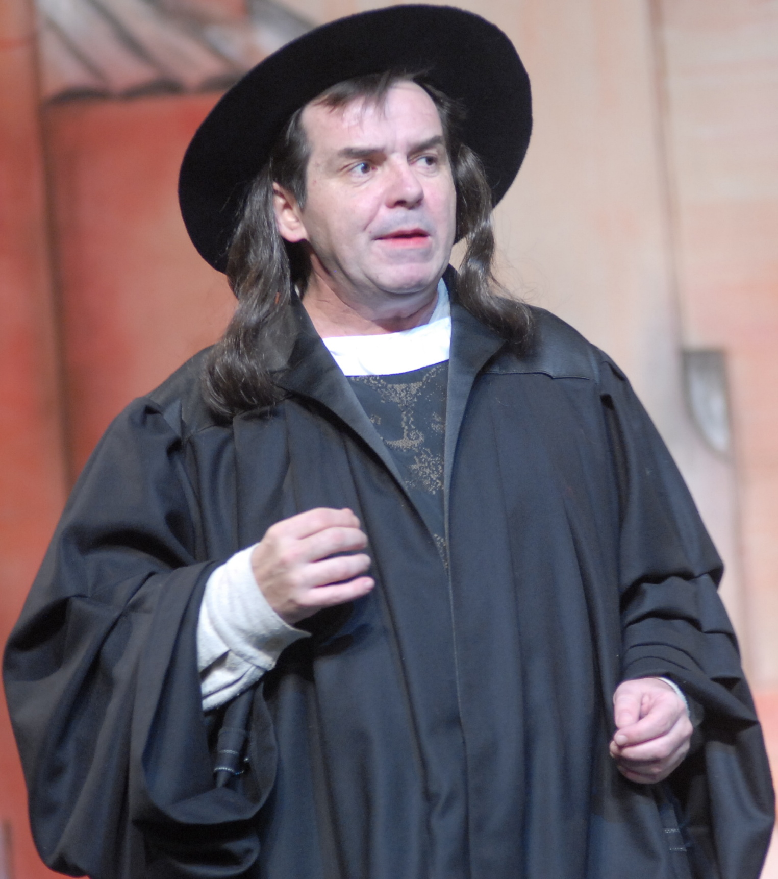 Erik Pardus